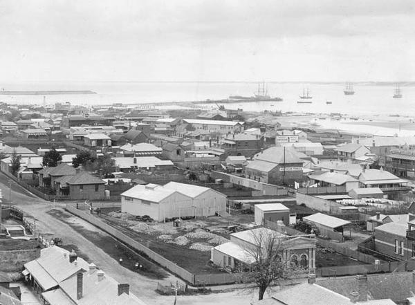 Photograph of Bunbury, Western Australia